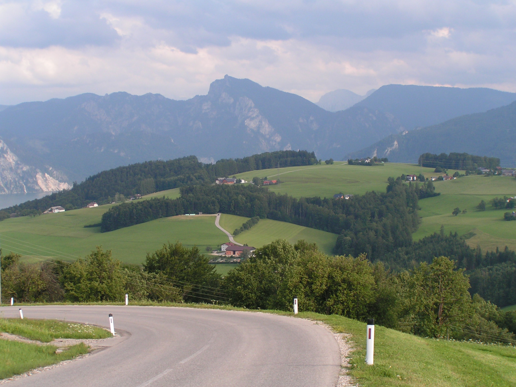 Straße von Gmundnerberg nach Grasberg. Hinten links Traunstein und Traunsee